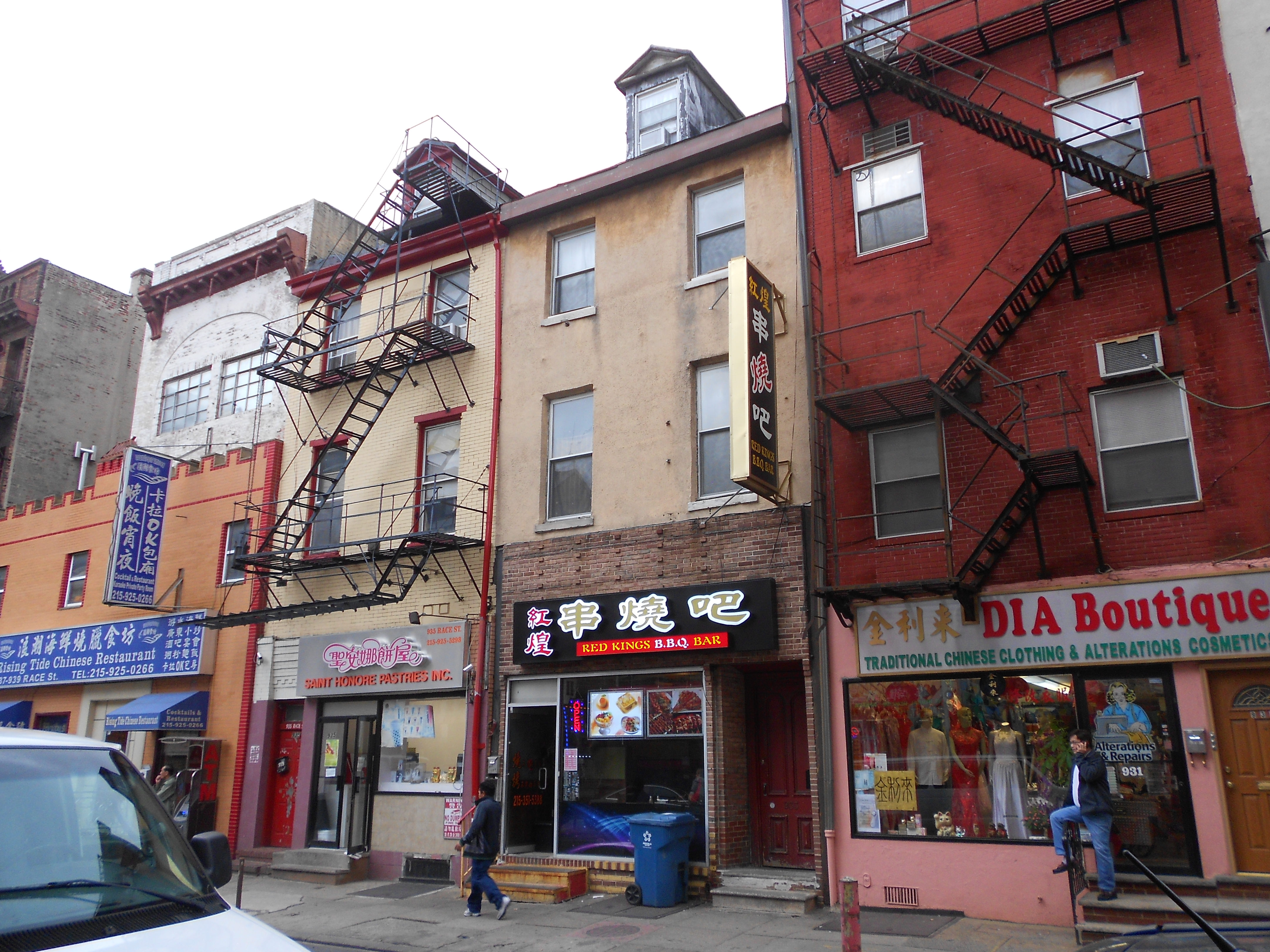 Building at 933 and 935 Race Street in Philadelphia. Both are on the Philadelphia Register of Historic Places